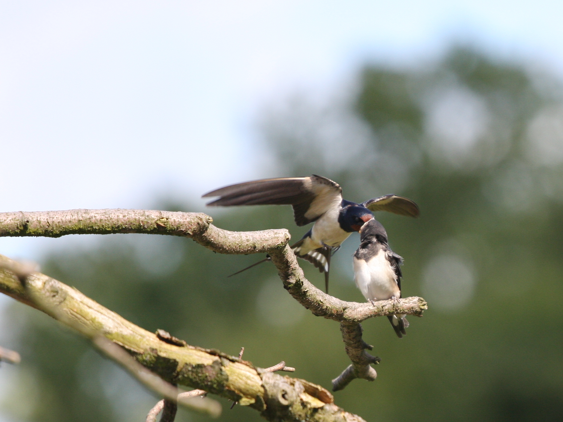 Juvenile Barn Swallow(Hirundo rustica) being fed by its parent